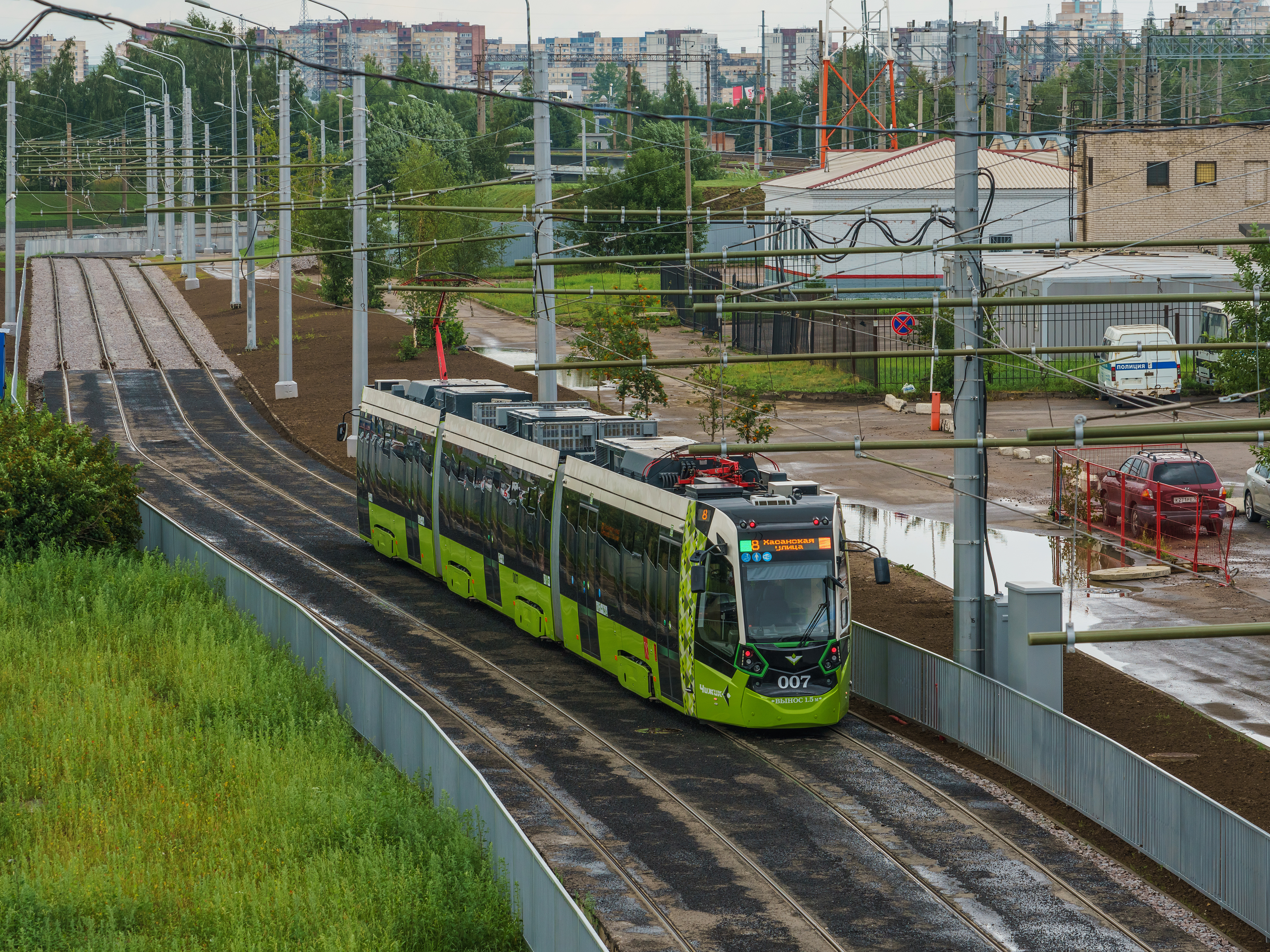 Stadler 856 tram in Saint Petersburg, Russia.